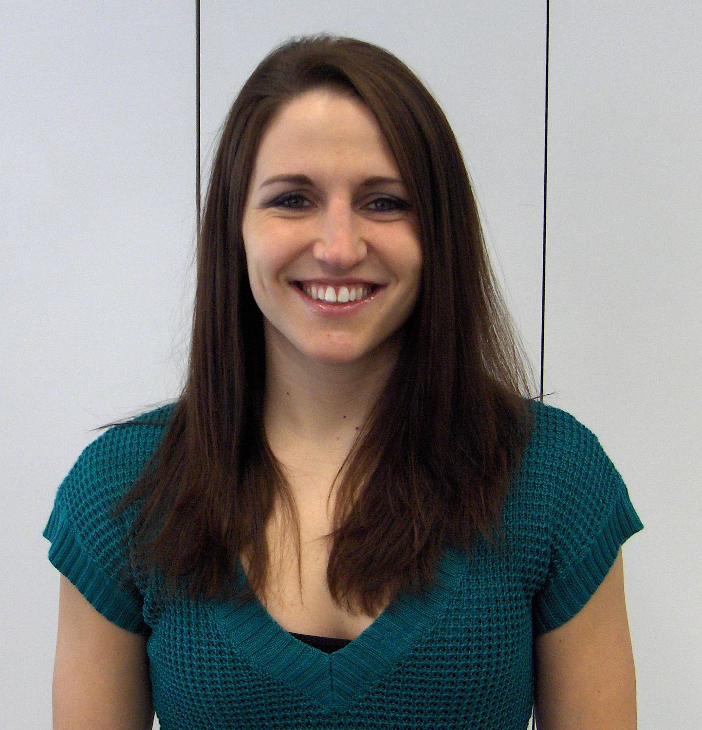 Mel Thomas University of Connecticut women's basketball player